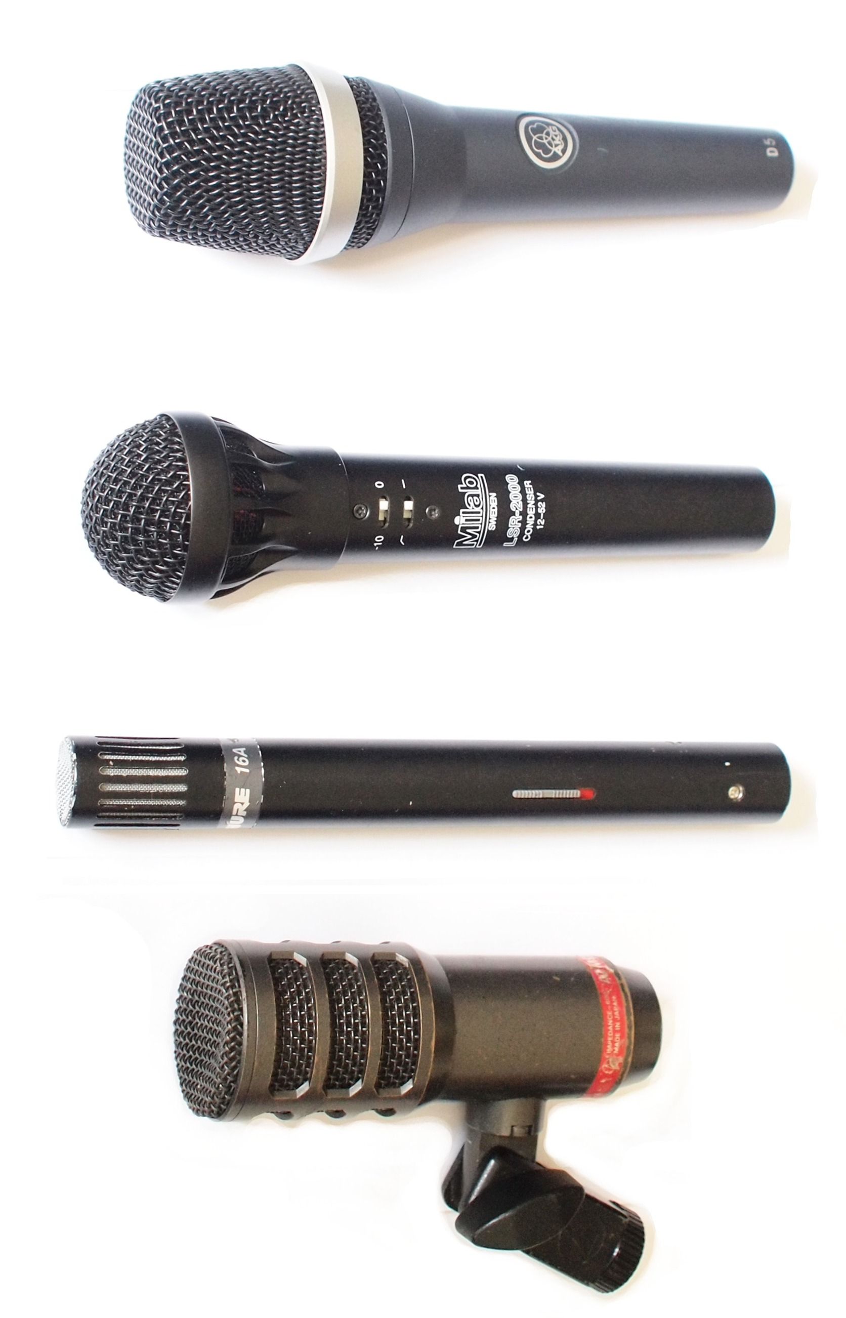 From top to bottom: AKG D5, Milab LSR-2000, Shure 16A, Audio Technica ATM25.